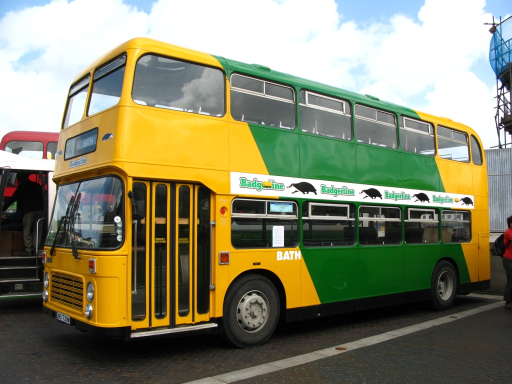 Preserved Bristol Omnibus VRT 5531 (EWS 739W) at the Bristol Harbourside Bus Rally. It is in the original Badgerline livery which was used in the second half of the 1980s.